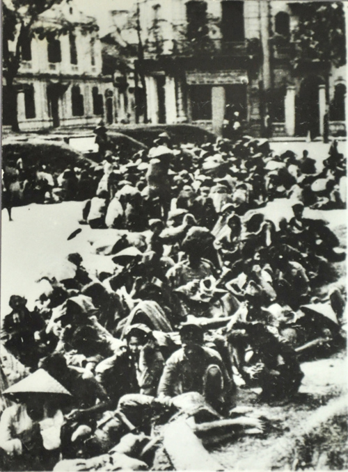 Famine in Vietnam, 1945